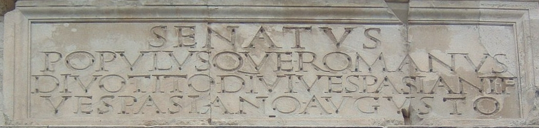 Dedicatory inscription on the Arch of Titus in Rome: The Senate and the Roman People to the divine Titus—son of the divine Vespasian— Vespasianus Augustus (CIL VI 945)